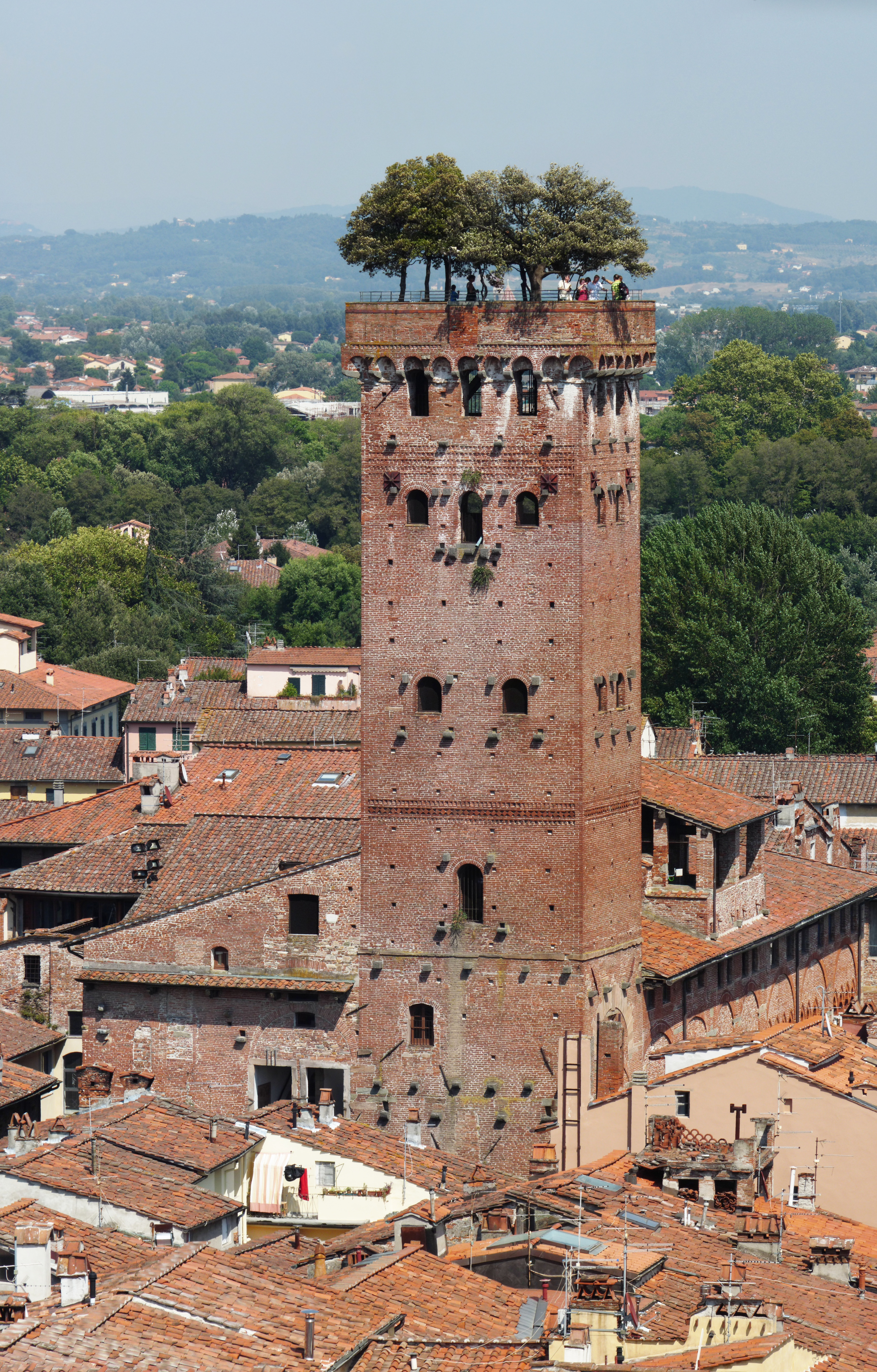 Torre Guinigi - Medieval tower in Lucca, Tuscany, Italy Photographed from "Torre dell'Orologio" This image was created with Hugin.